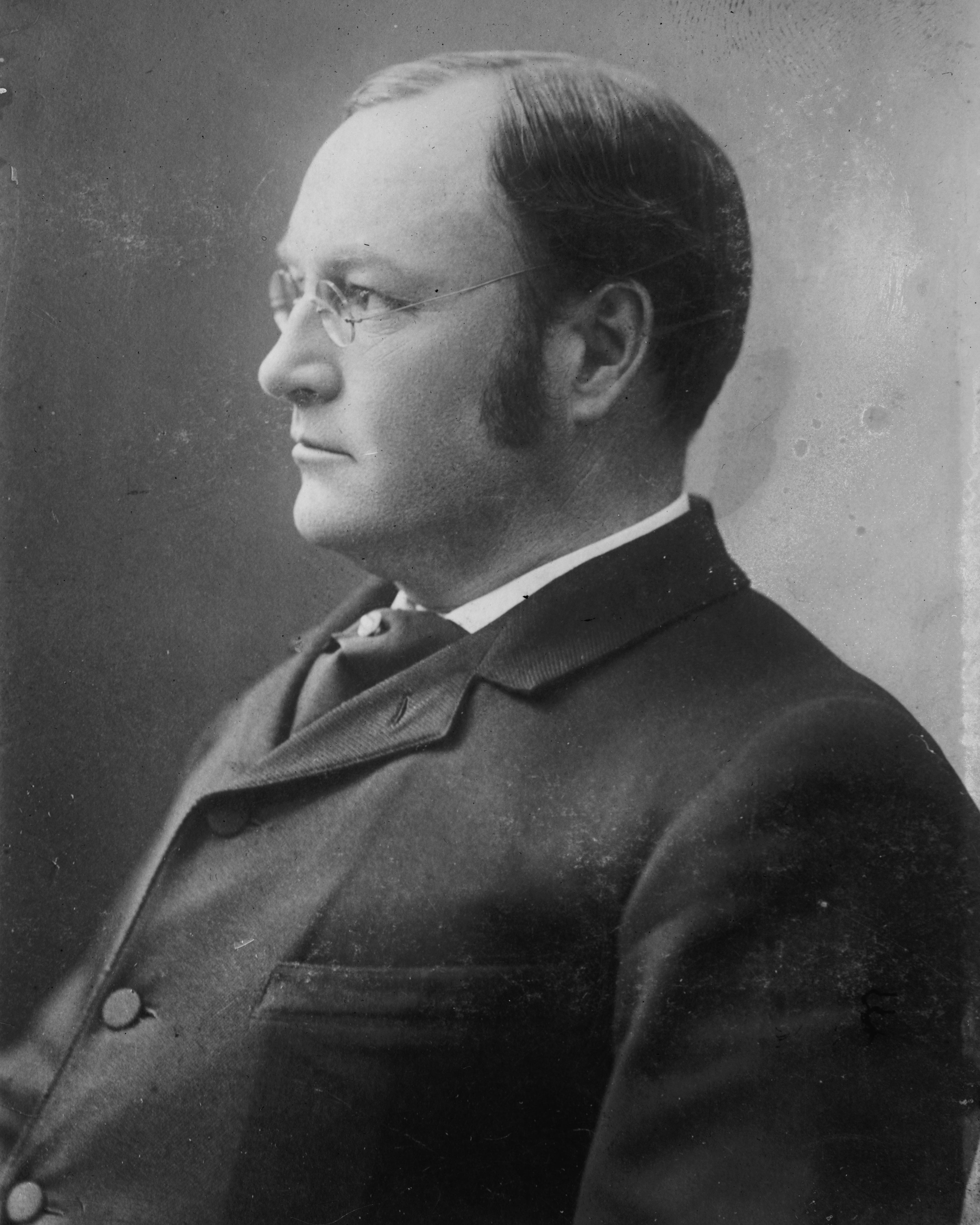 James Sherman, Vice President of the United States.